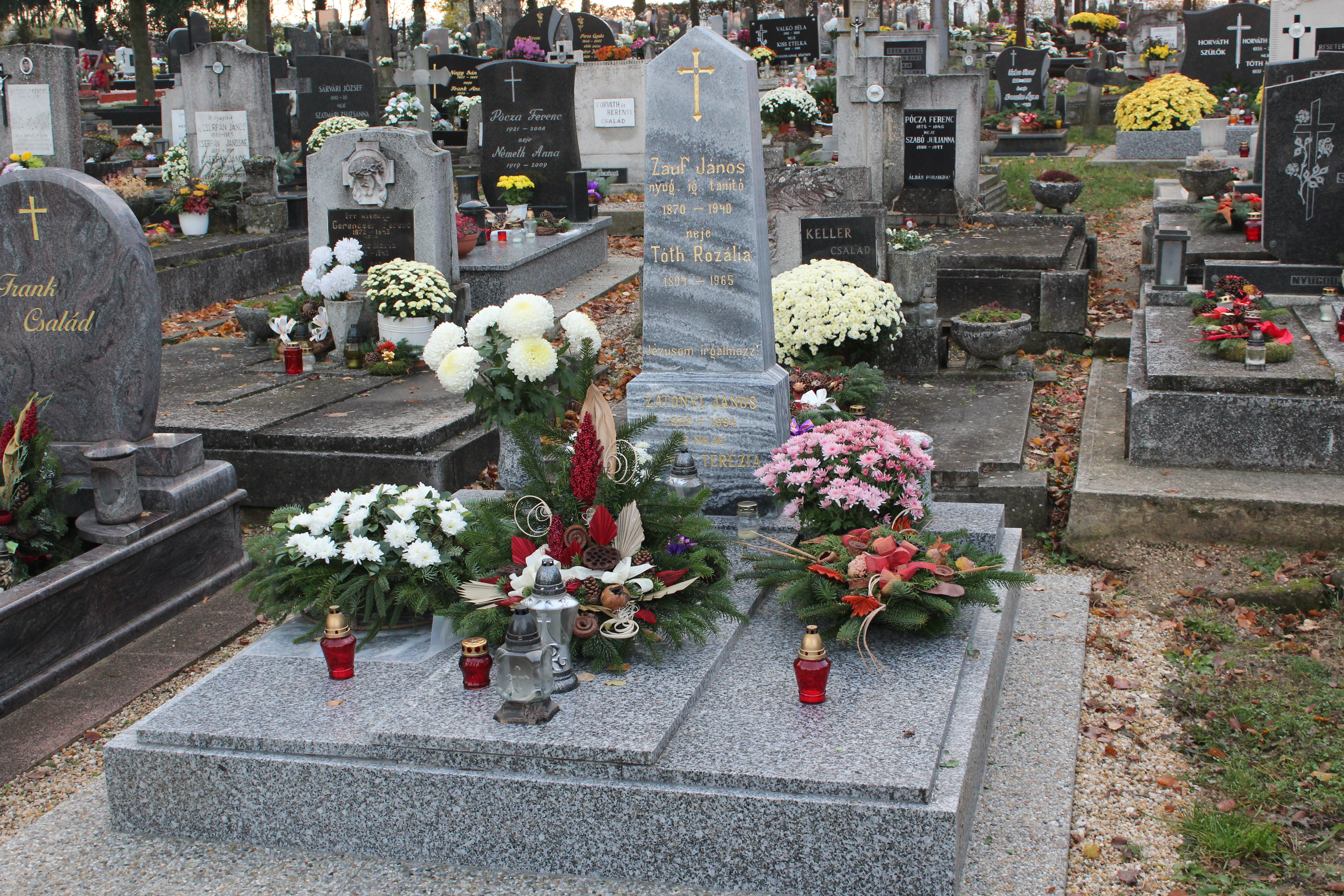 Grave of Family Zauf/Zátonyi (Csepreg, Hungary)